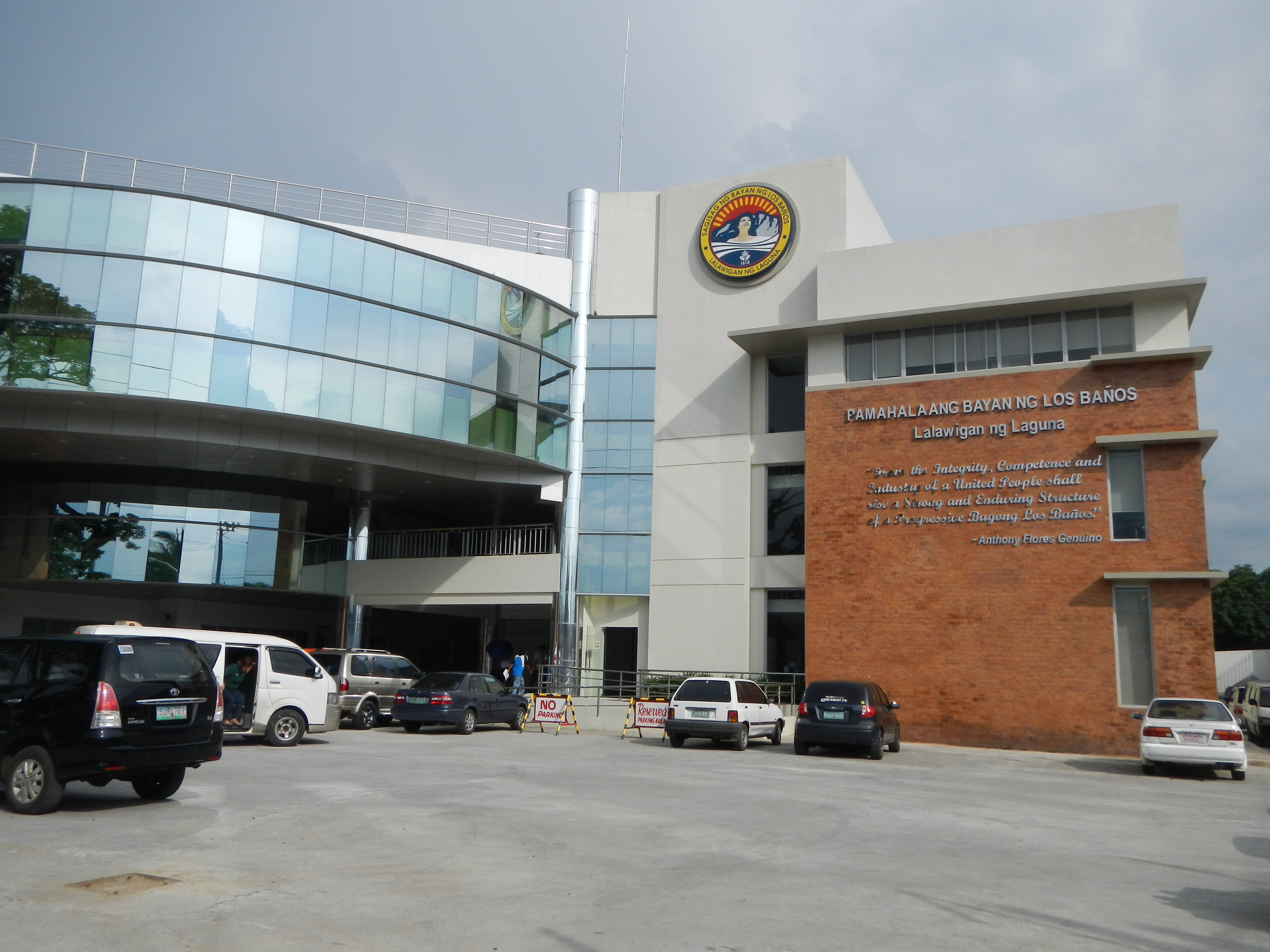 Los Baños Municipal Hall Building - Los Baños, Laguna[1] (replacing the 1920 Old Municipal Building[2] Coordinates: 14°10'55"N 121°13'27"E) completed on November 27, 2012) Los Baños opens controversial hall November 29th, 2012 - P91 million borrowed by the local government to build the structure.